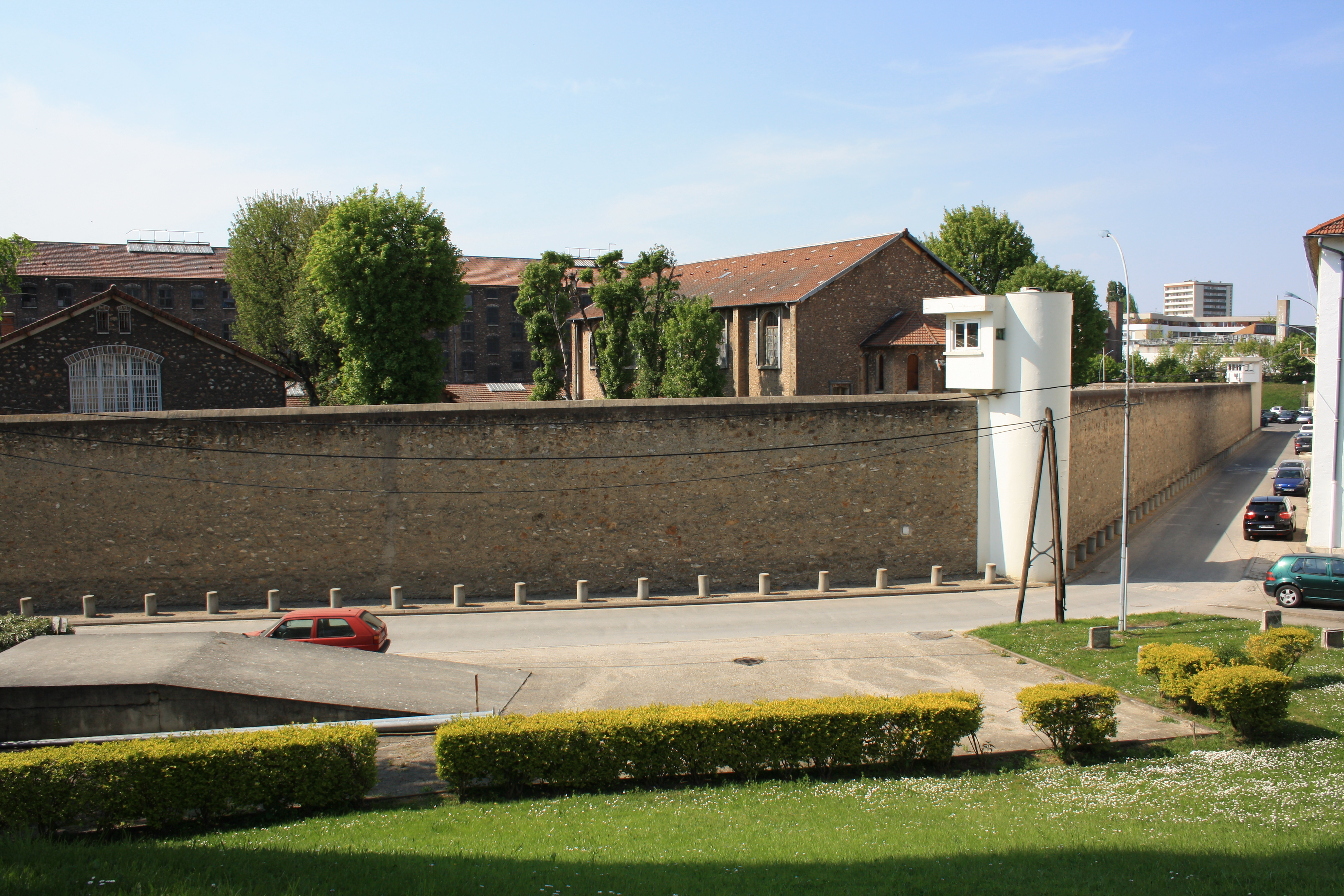 Prison in Fresnes near Paris, France